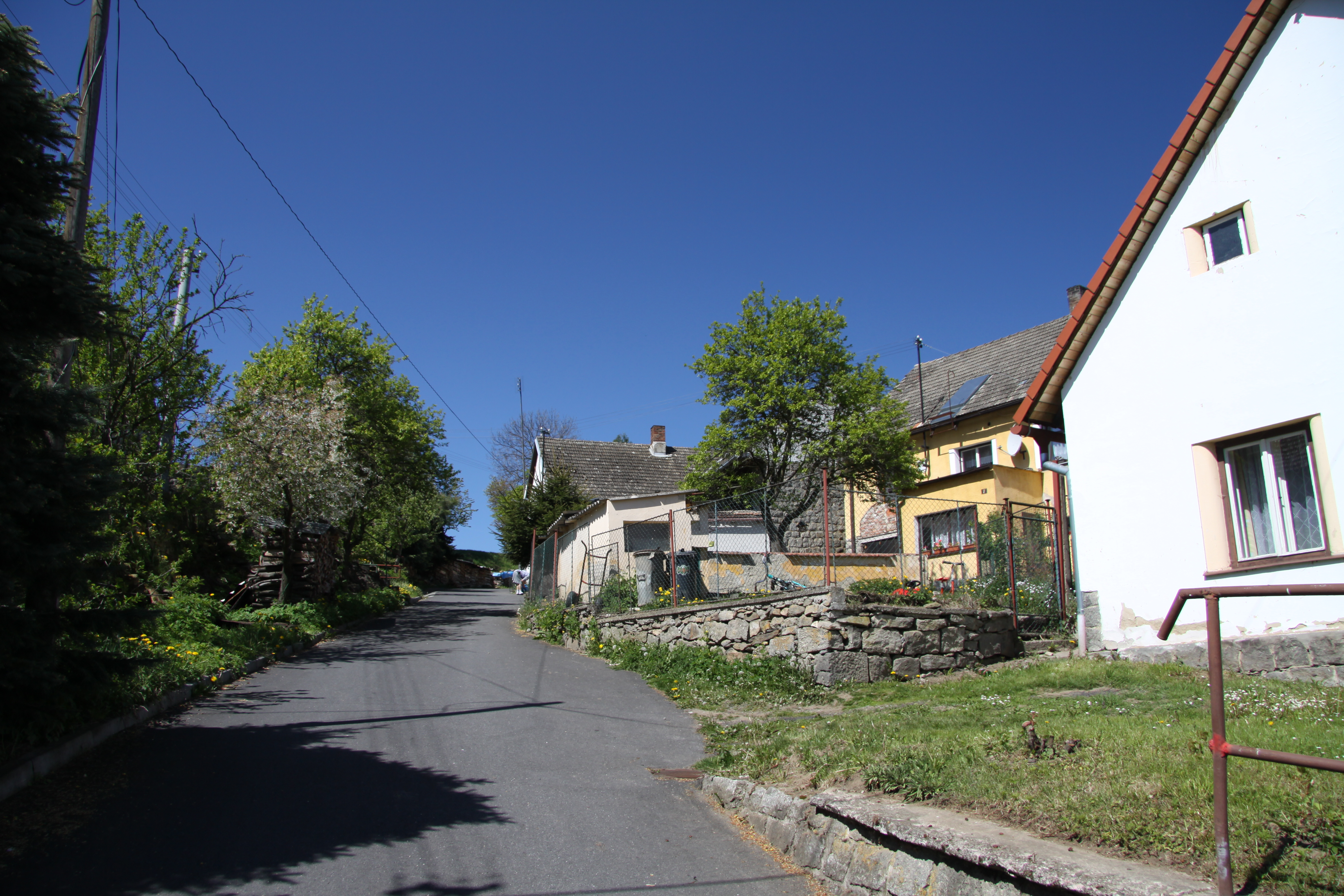 Chvalšovice village, part of Dřešín village in Strakonice District, Czech Republic - Google Maps - Google Earth